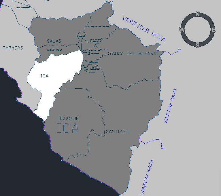 Map of the Ica geographic district within the Ica (same name) Province within the Ica (same name) Region of Peru.